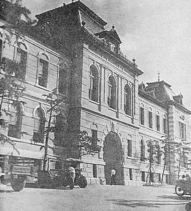 Kobe City Municipal Police Building